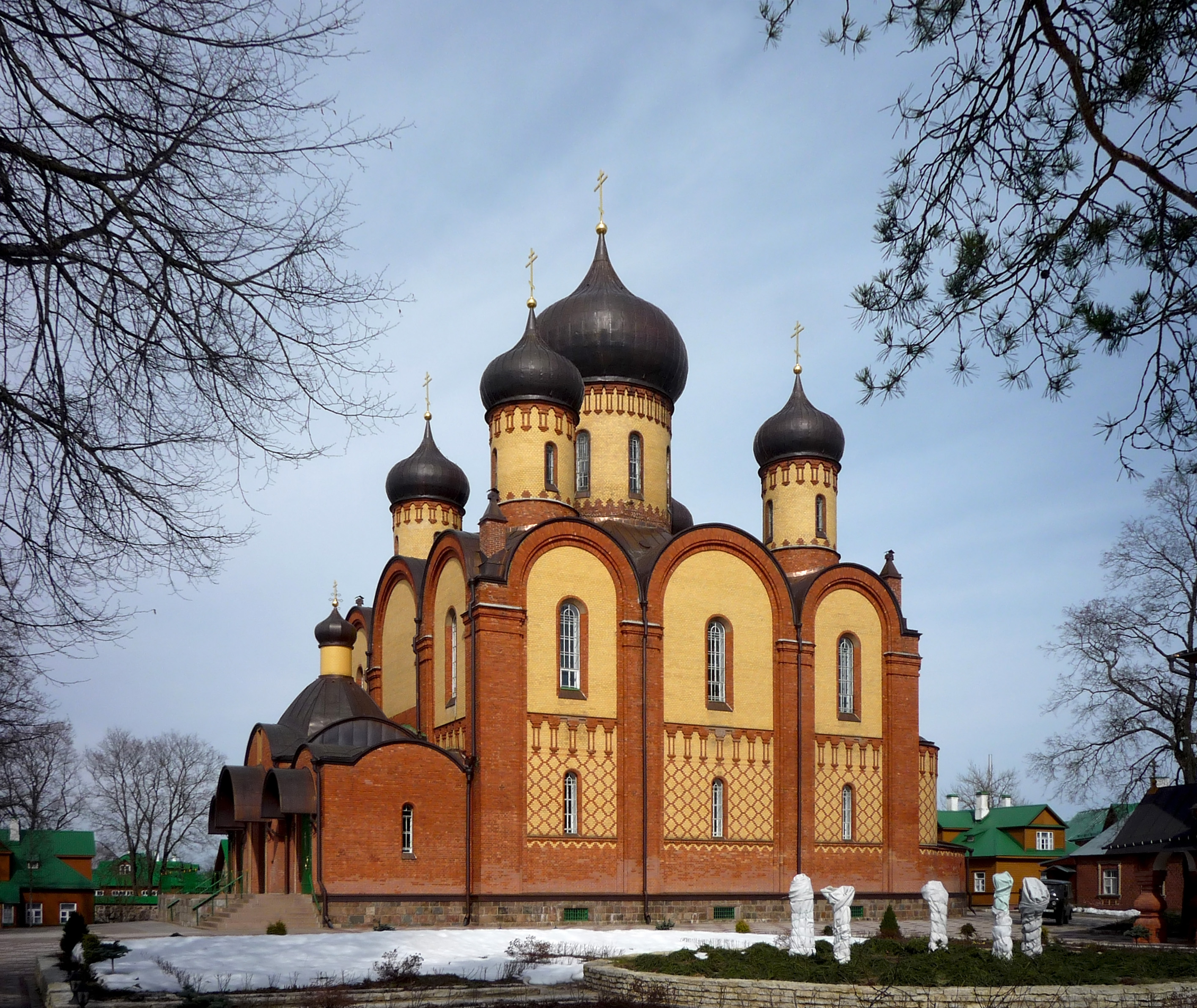 Assumption Cathedral in Pühtitsa nunnery